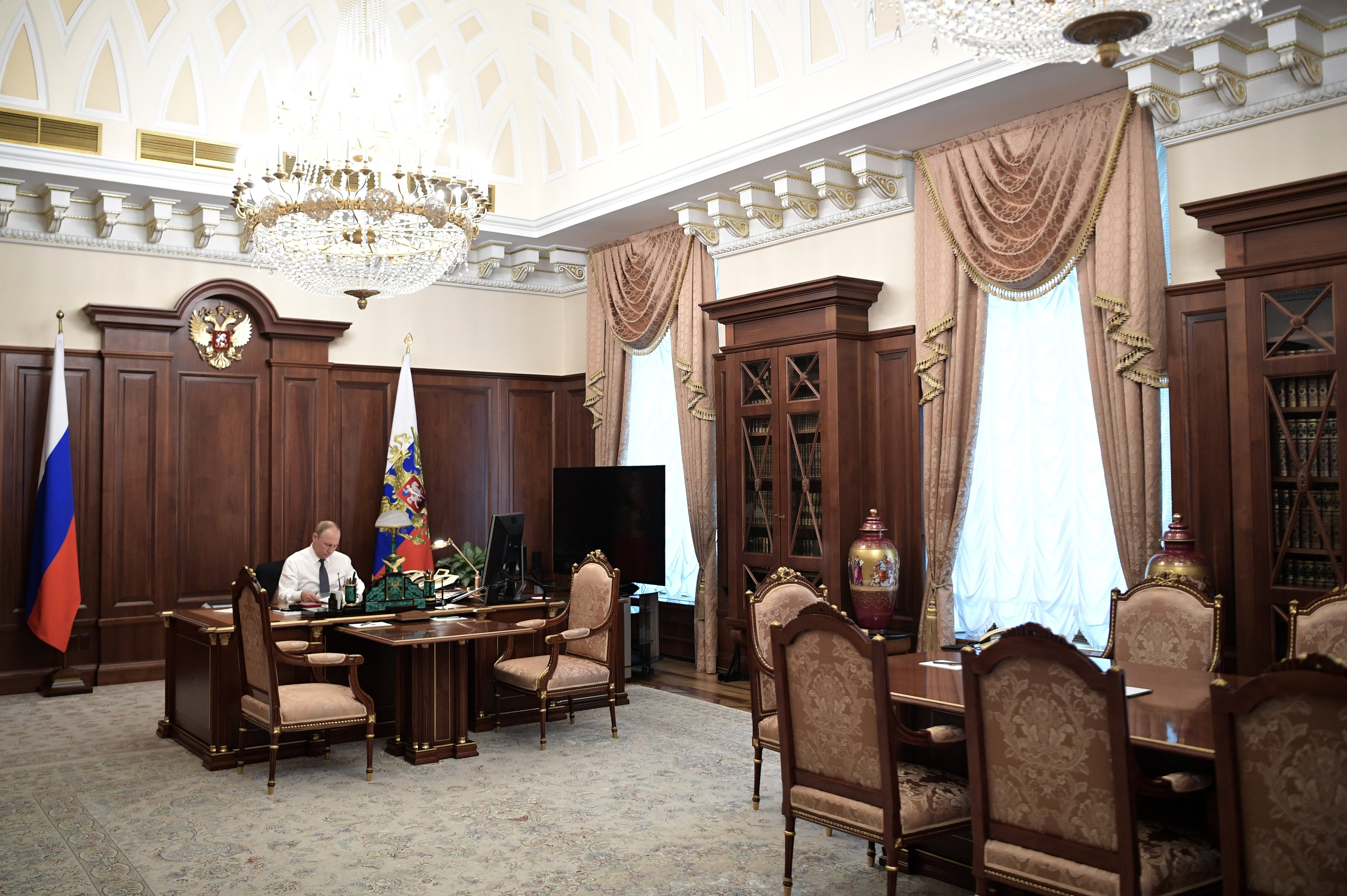 Vladimir Putin has been sworn in as President of Russia (2018-05-07)